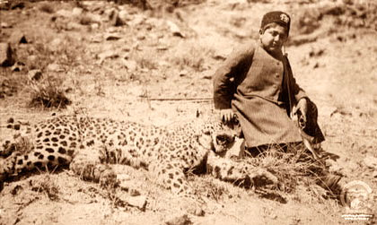 Ahmad Shah Qajar and a Leopard. Azerbaijan